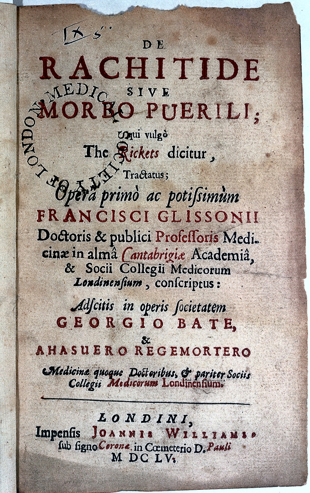 Rare Books Keywords: Francis Glisson